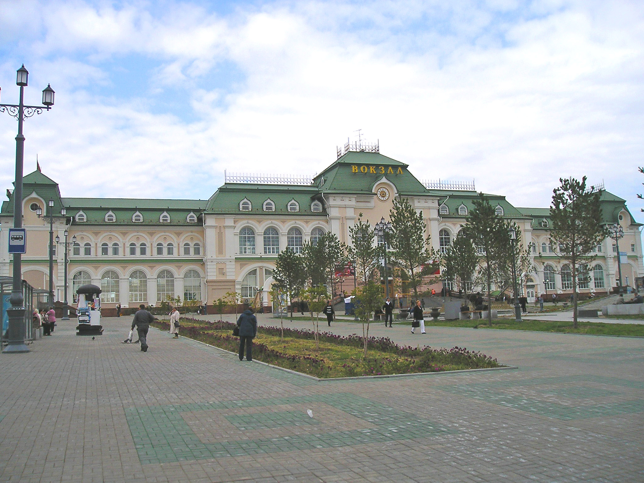 Khabarovsk railway station and square